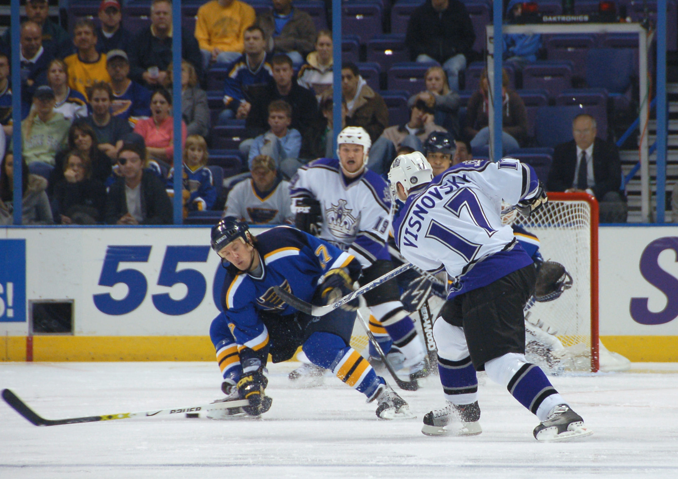 Lubomir Visnovsky of the L.A. Kings shoots, Ryan Johnson of the St. Louis Blues trys to block the shot